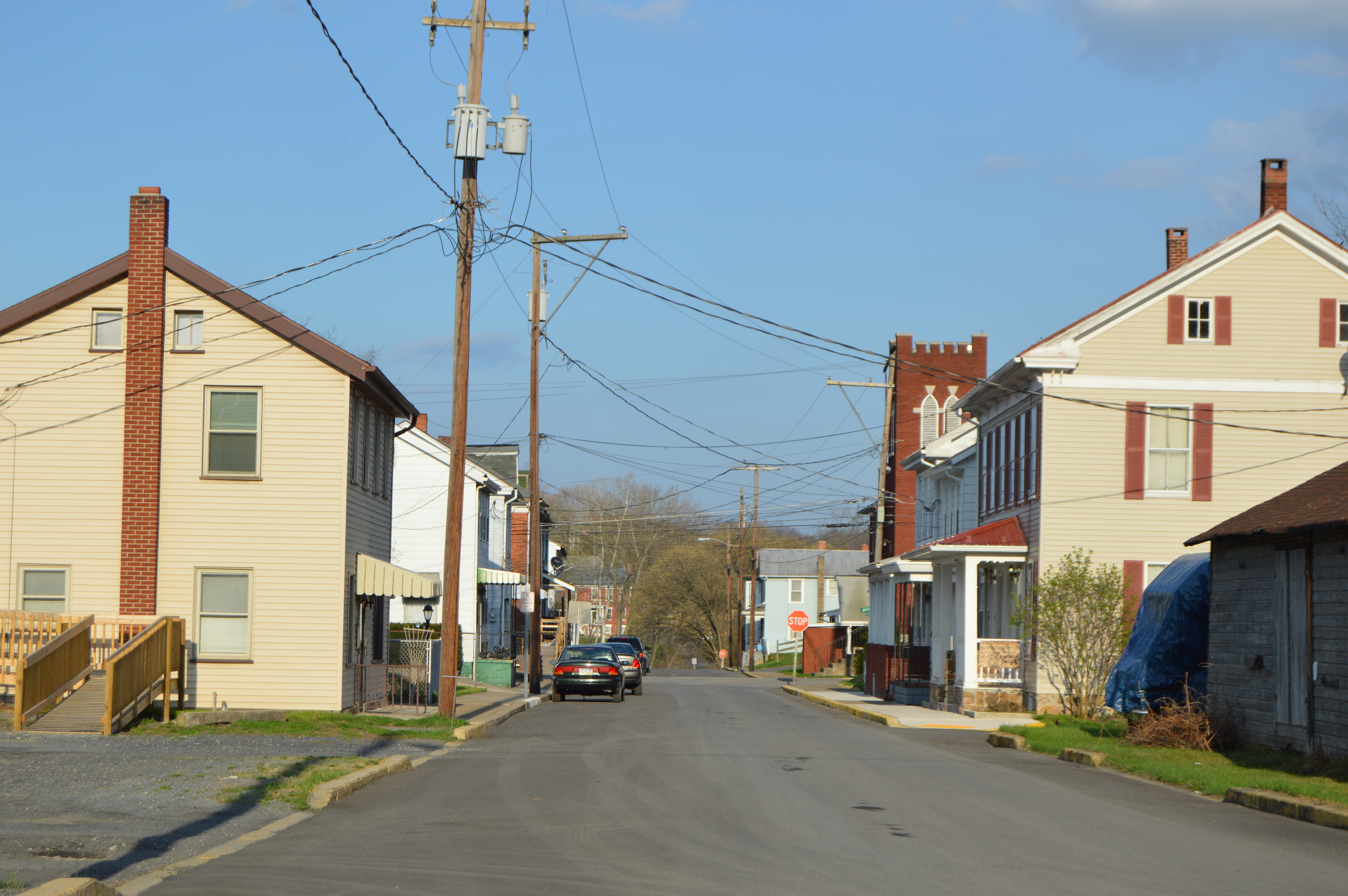 Looking east on Tuscarora Street from the Railroad Avenue intersection in Mifflin, Pennsylvania, United States.